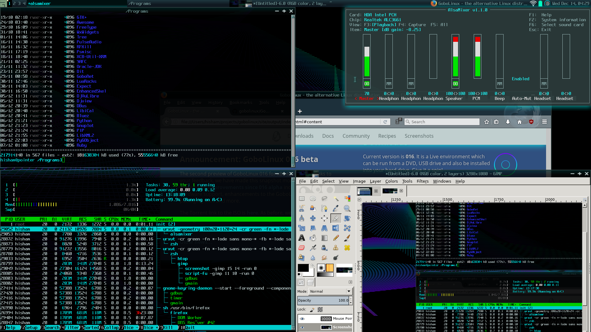 GoboLinux 016 desktop